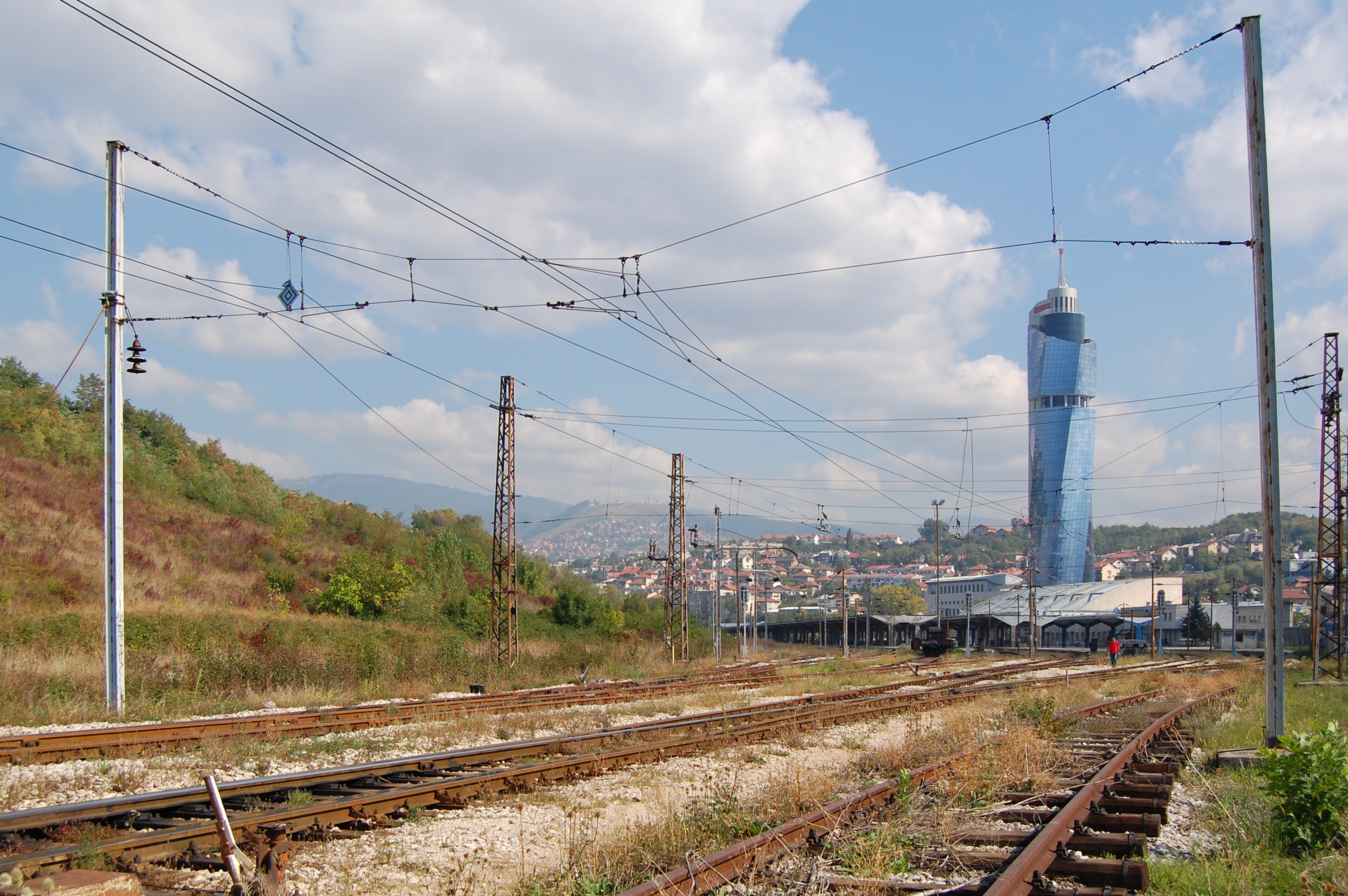 Railway Station in Sarajevo, October 1, 2011